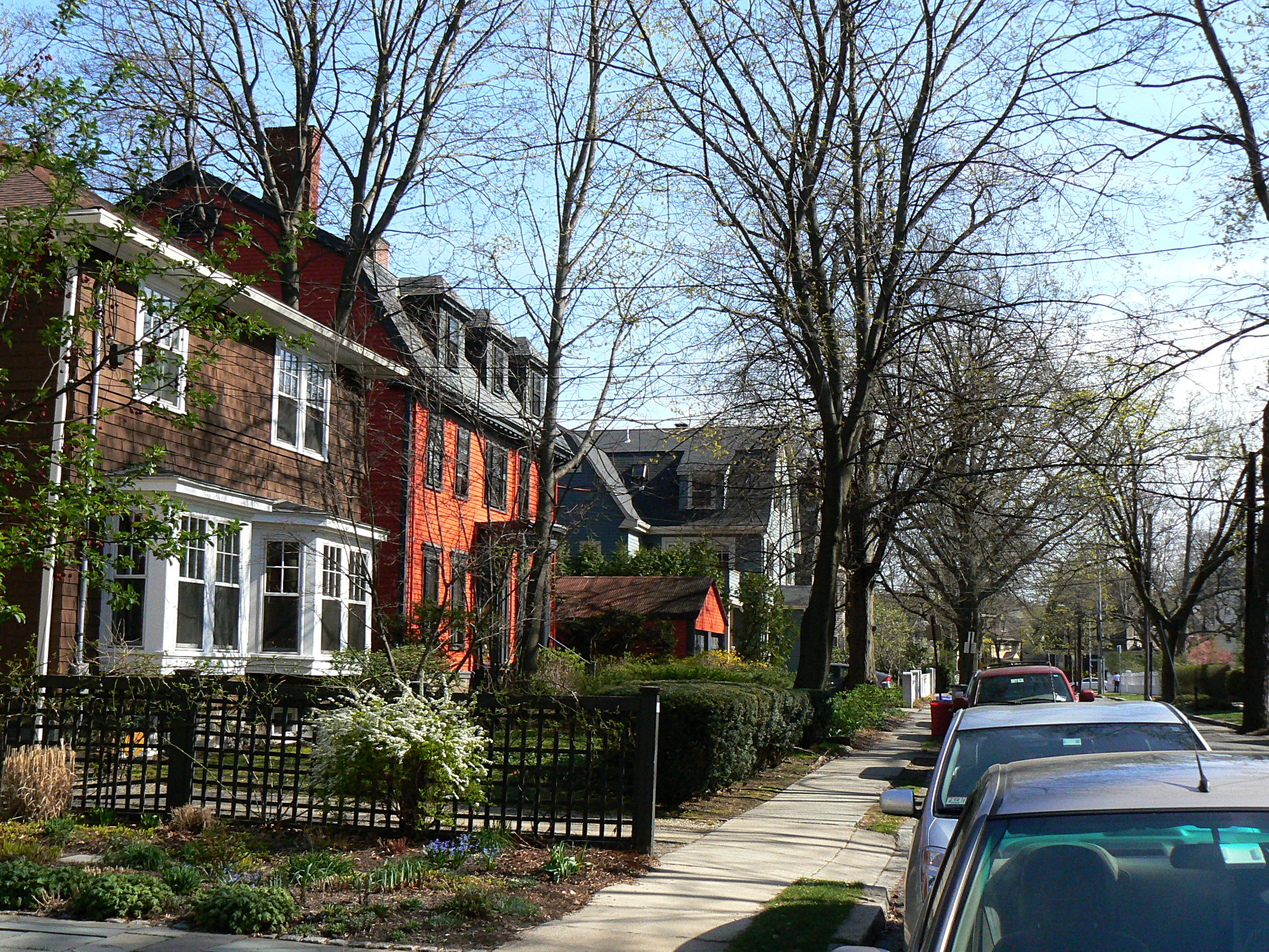 A photograph of Francis Avenue in the Shady Hill Historic District of Cambridge, Massachusetts.